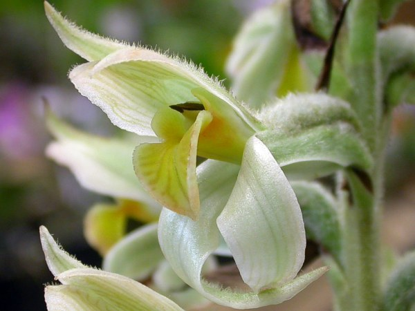 Sarcoglottis heringeri